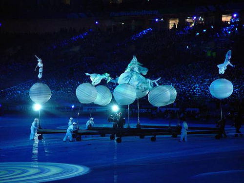 at the rugby world cup - representing cooks arrival (Flickr)